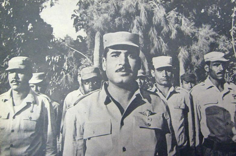 Egyptian Soldiers during the War of Attrition.